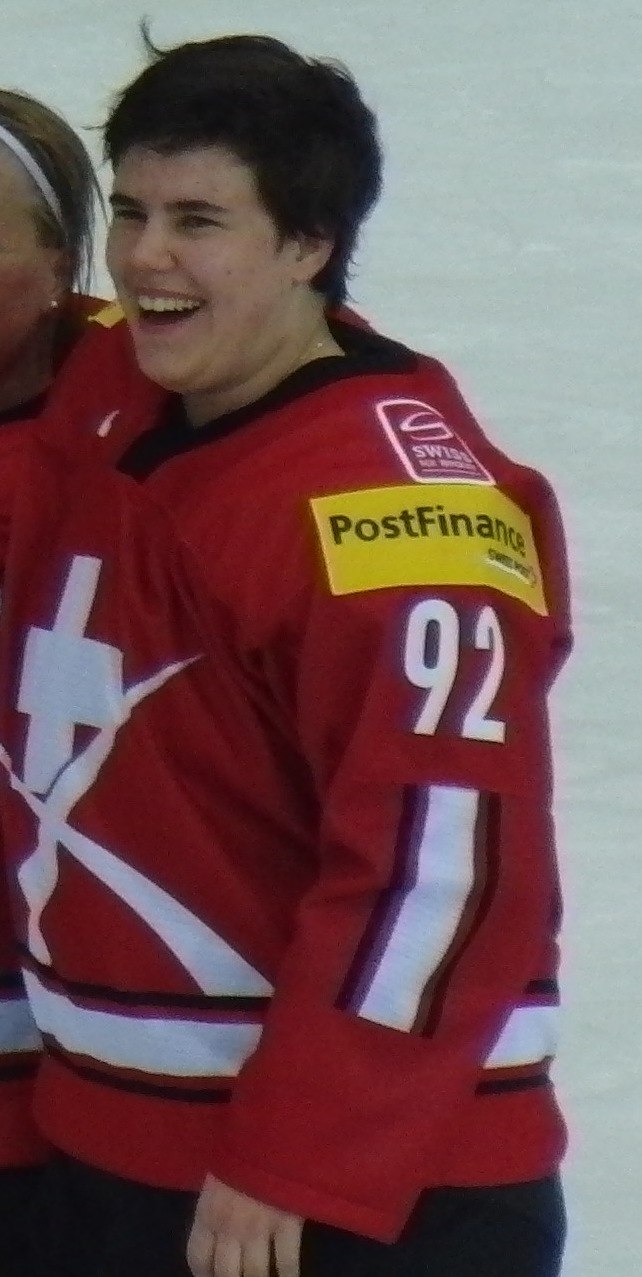 Sandra Thalmann at the women-ice hockey-WC 2011 in Winterthur after the game against Finnland.